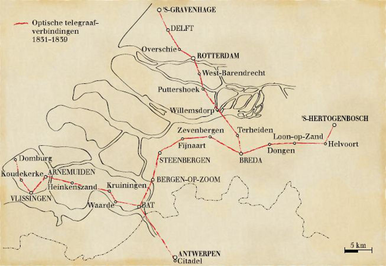 Kaart van telegraafverbindingen in 1835